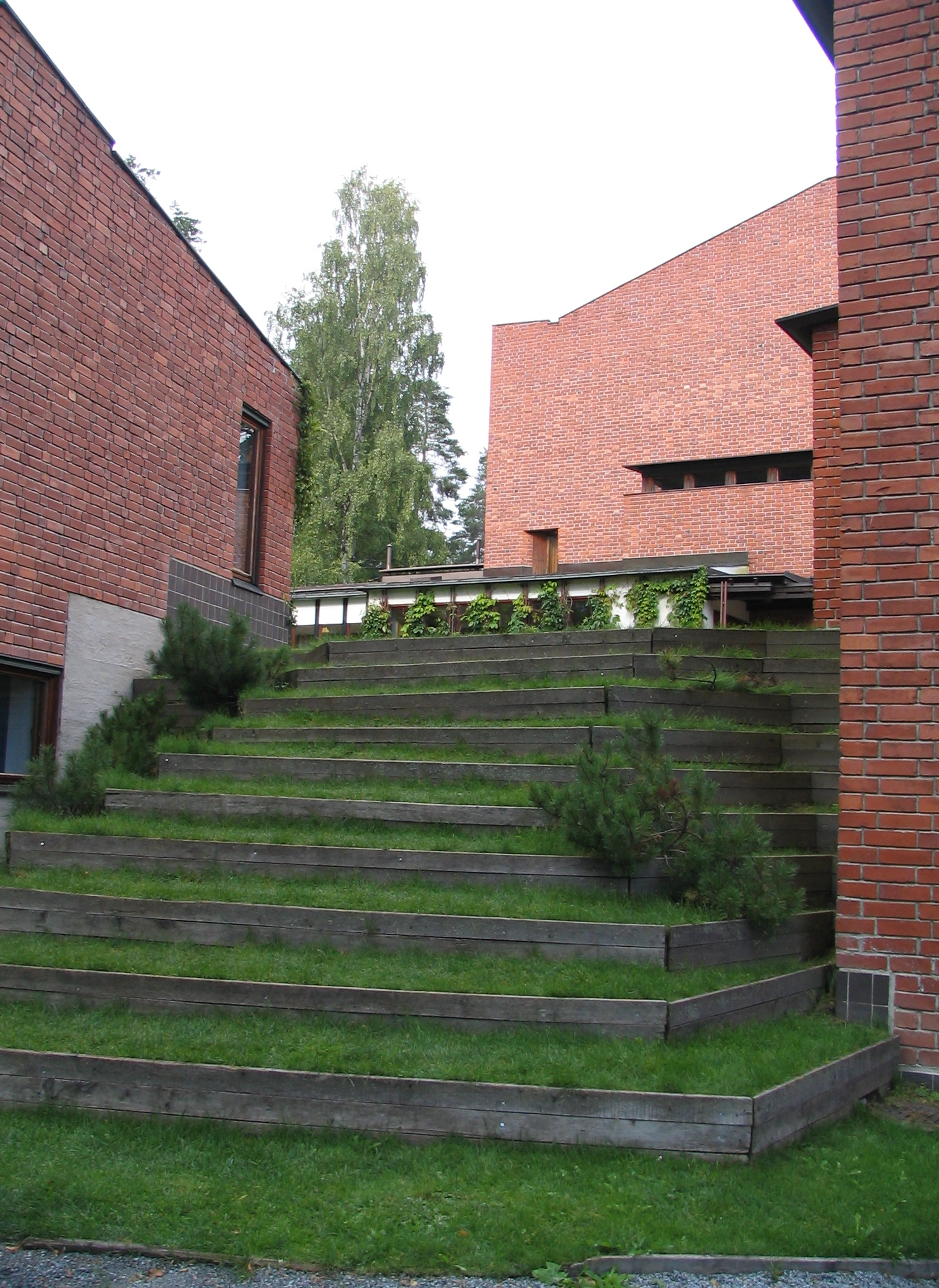 Säynätsalo town hall and library, Jyvaskyla, Finland